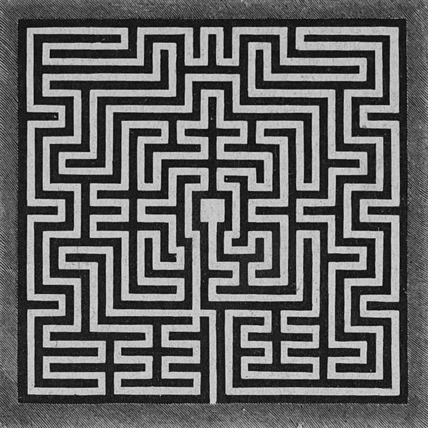 caption: "Das Labyrinth der Liebfrauenkirche zu St. Omer."